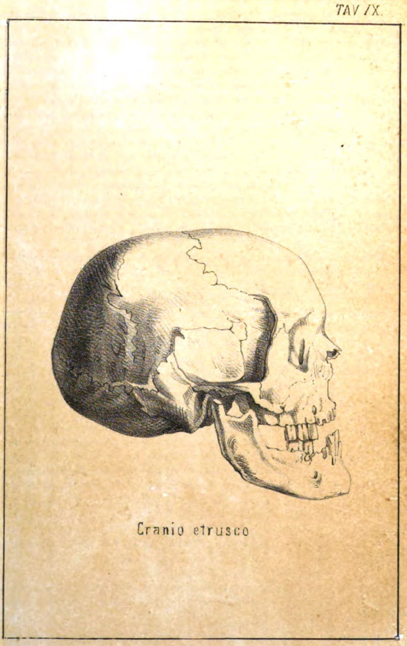 Etruscan skull (1841)